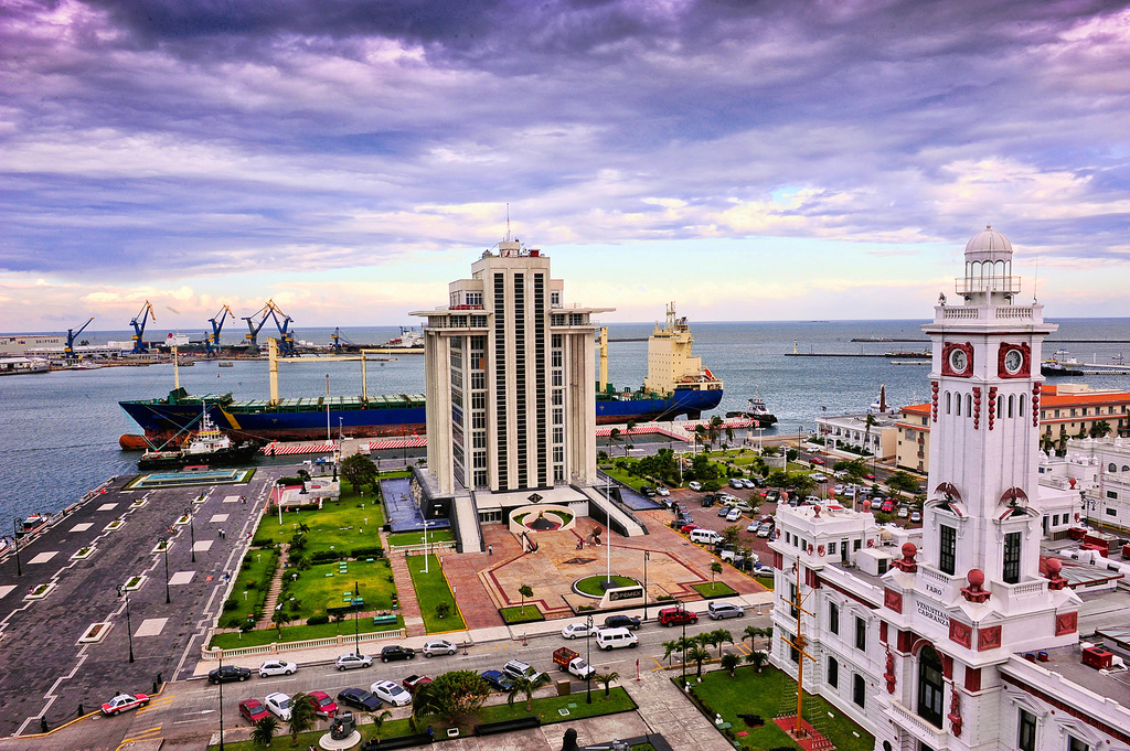 Port of Veracruz